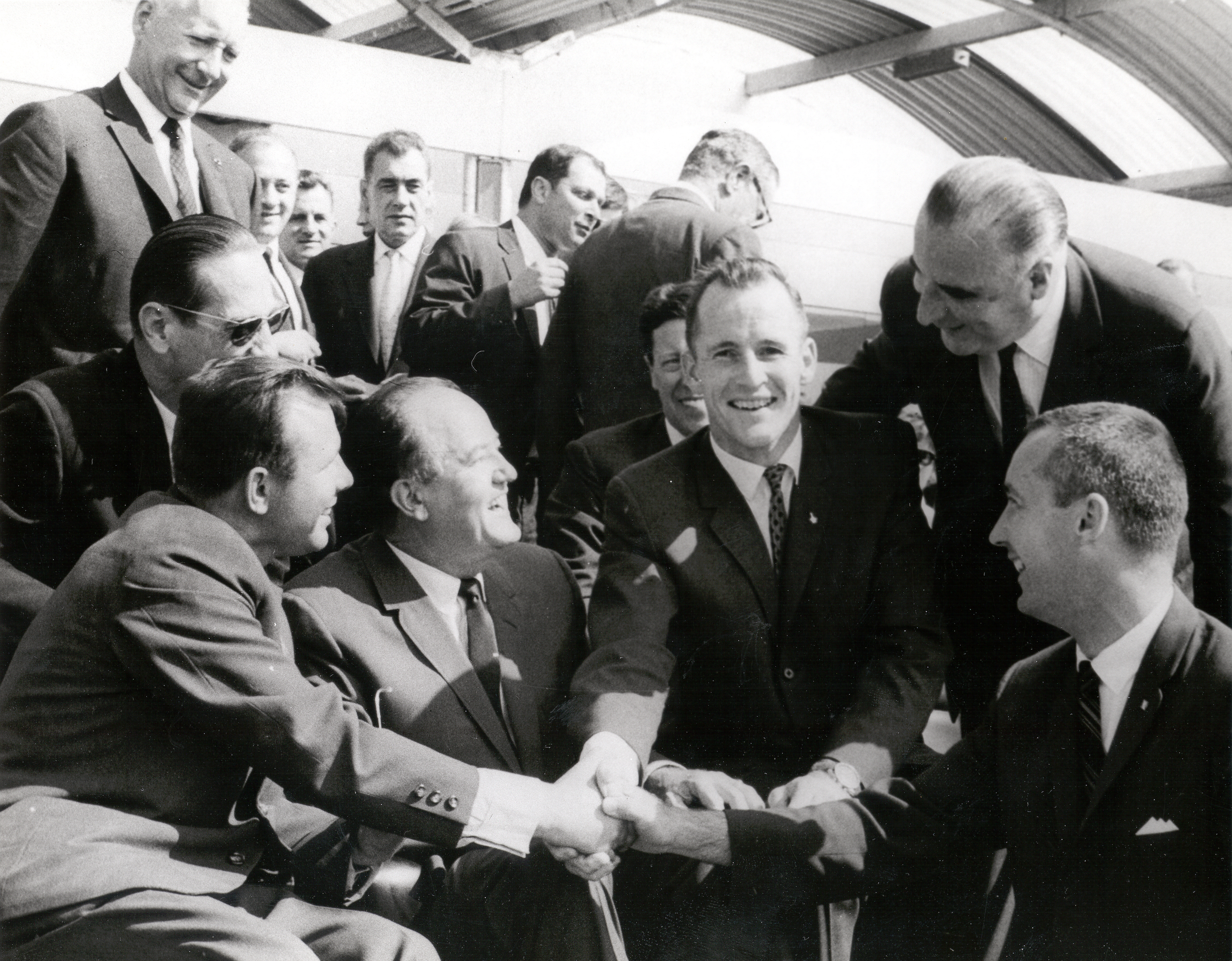 Soviet cosmonaut Yuri Gagarin shakes hand with NASA's Gemini 4 astronauts, Edward H. White II and James A. McDivitt at the Paris International Air Show in June 1965. This first meeting between Gagarin and the Gemini 4 astronauts occurred shortly after the completion of the Gemini 4 mission, where White performed the first American EVA. Yuri Gagarin achieved fame as the first human to fly in space, as well as orbit Earth. Also shown in the picture (seated) are Vice President Hubert H. Humphrey and (standing) French Premier ministre Georges Pompidou.